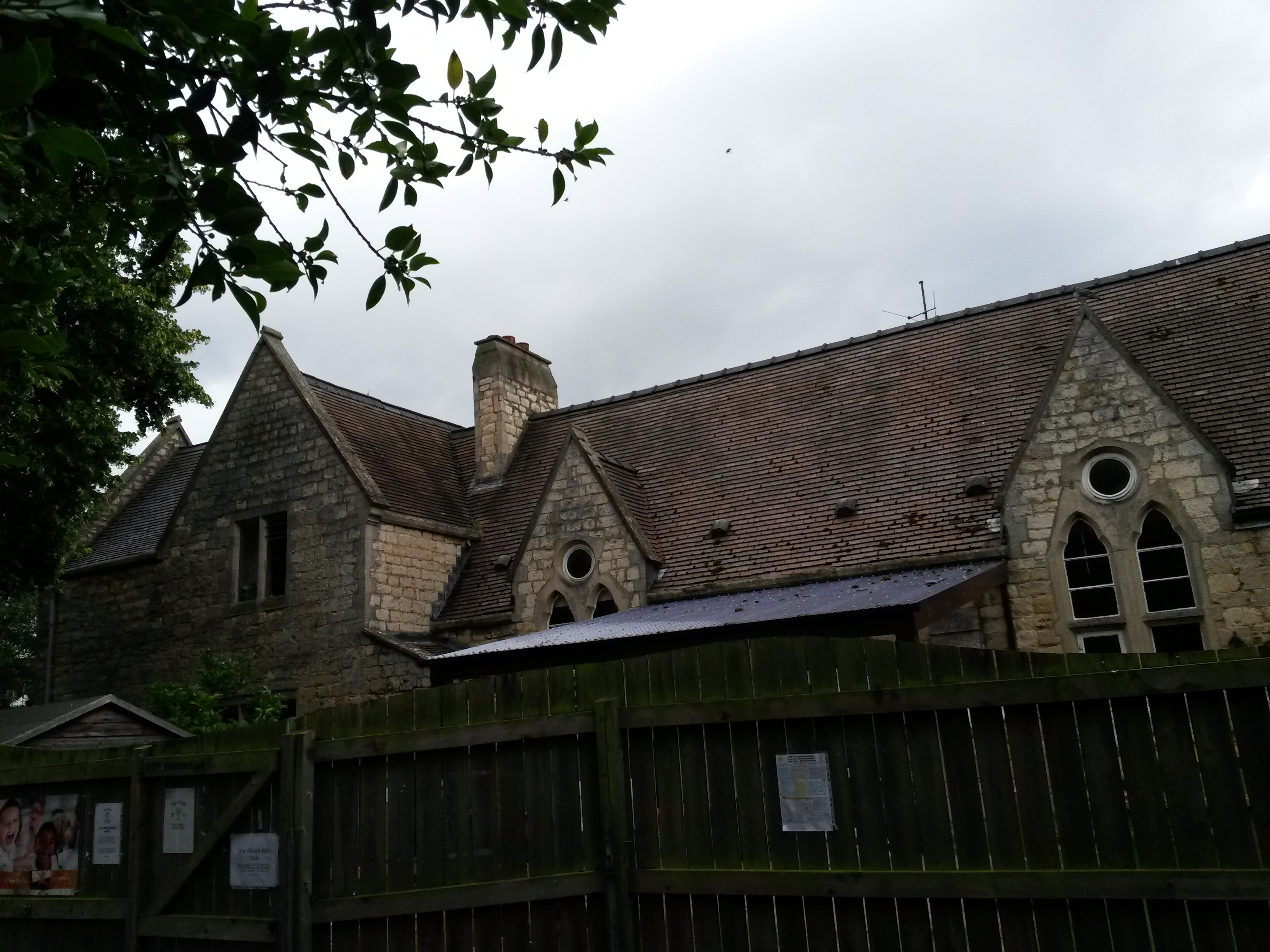 Photo of St Lawrence's School (est.1850), taken from churchyard.